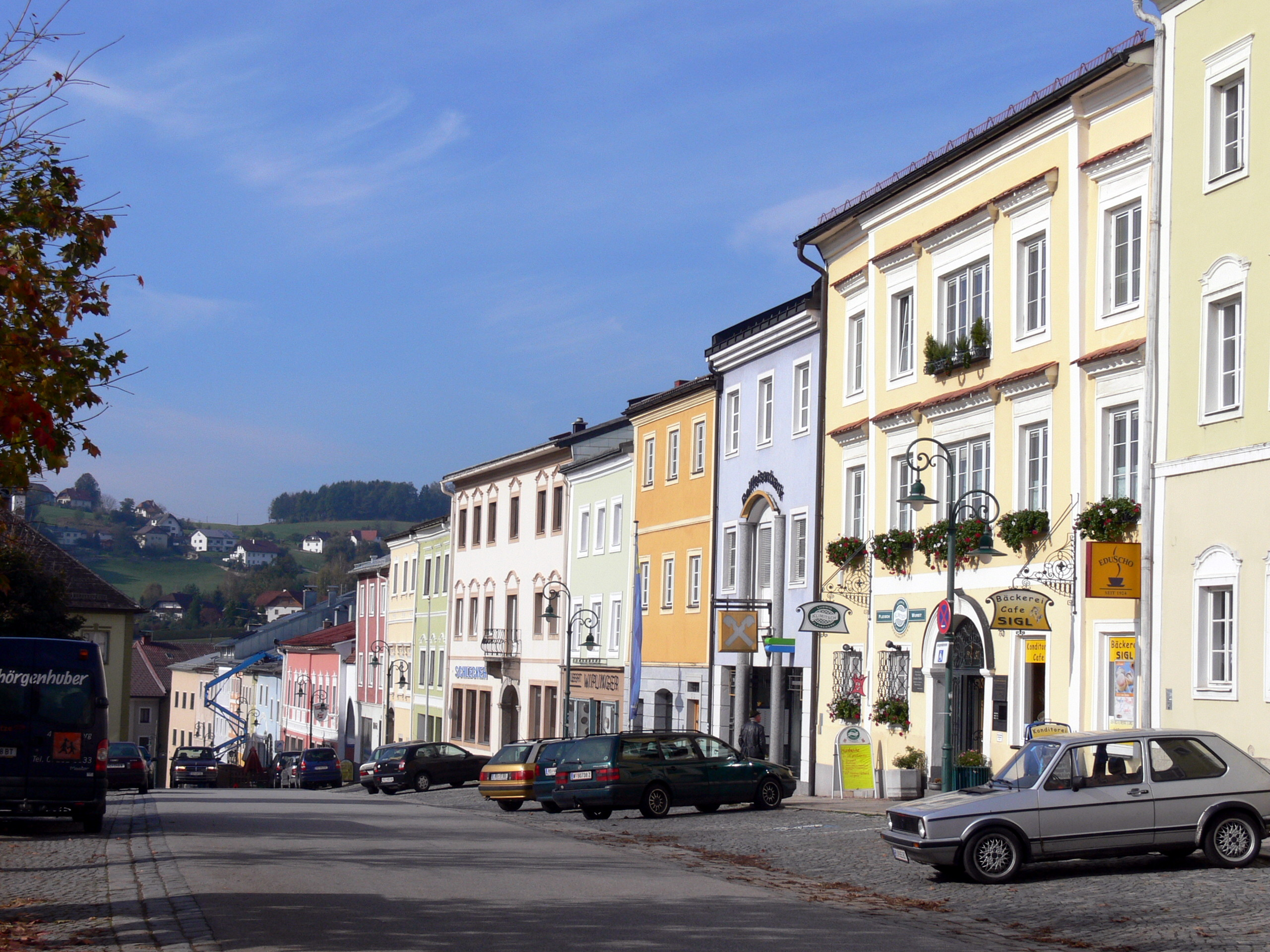 Haslach an der Mühl. Market houses.